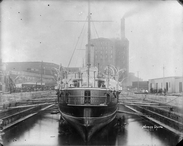 Photograph of British Astraea class cruiser HMS Charybdis in drydock at Halifax, Nova Scotia, Canada while with the North America and West Indies Squadron.